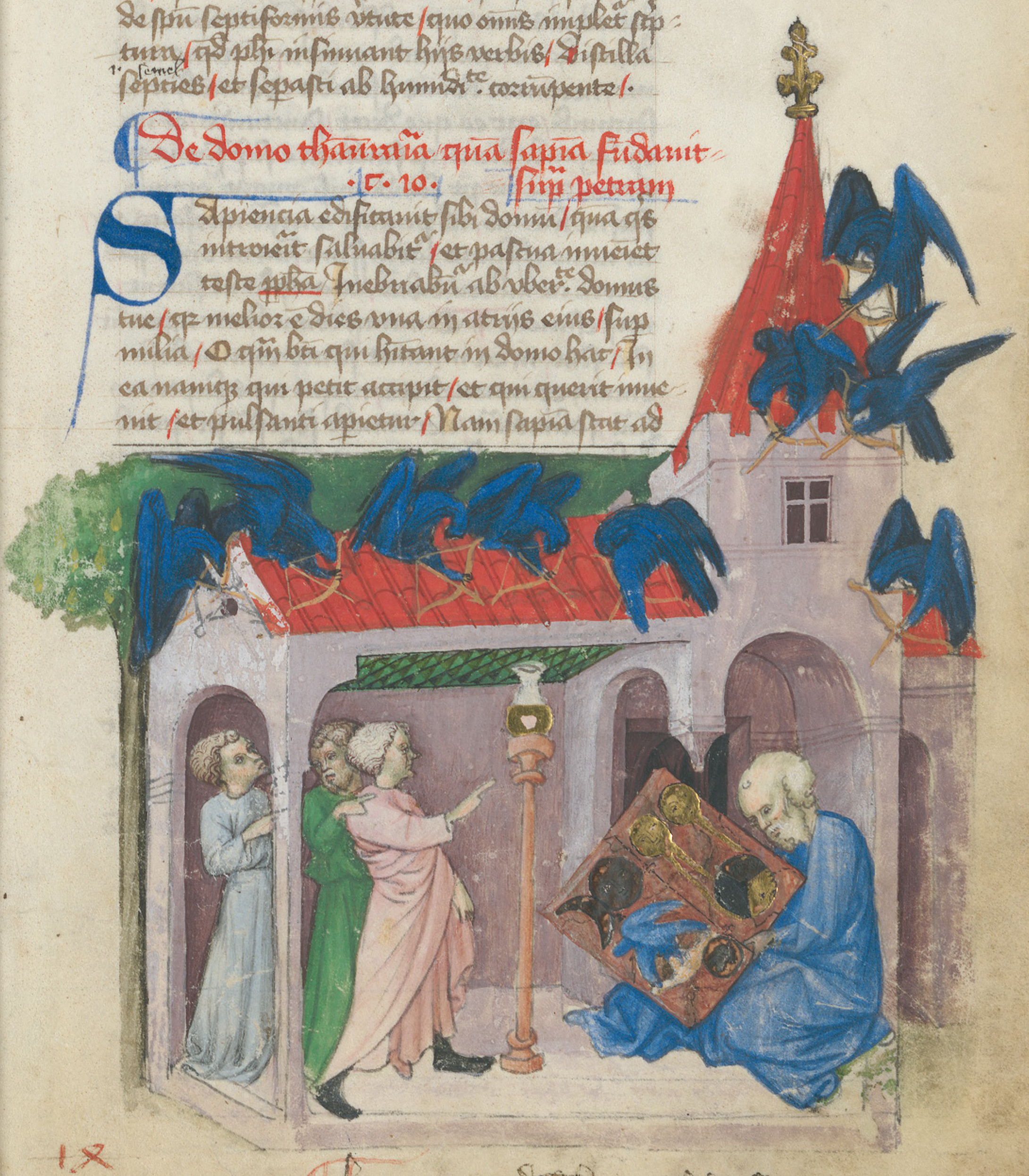 The discovery of the Emerald Tablet, Aurora Consurgens medieval manuscript, exemplar from Zürich Zentralbibliothek, Ms. Rh. 172 Parchemin, 100 ff., 20.4 x 13.9 cm, Saint Gall, XVe siècle, latin 10.5076/e-codices-zbz-Ms-Rh-0172 Downloaded from the above site, cropped by GAllegre folio 3 recto - 7